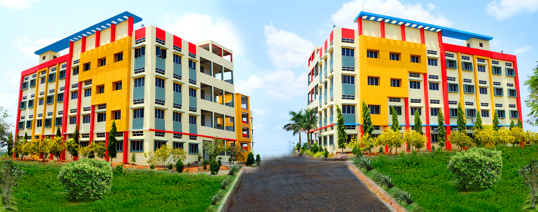 Palagadu Nagayya Chaudhary Engineering College in Phiirangipuram, Guntur District